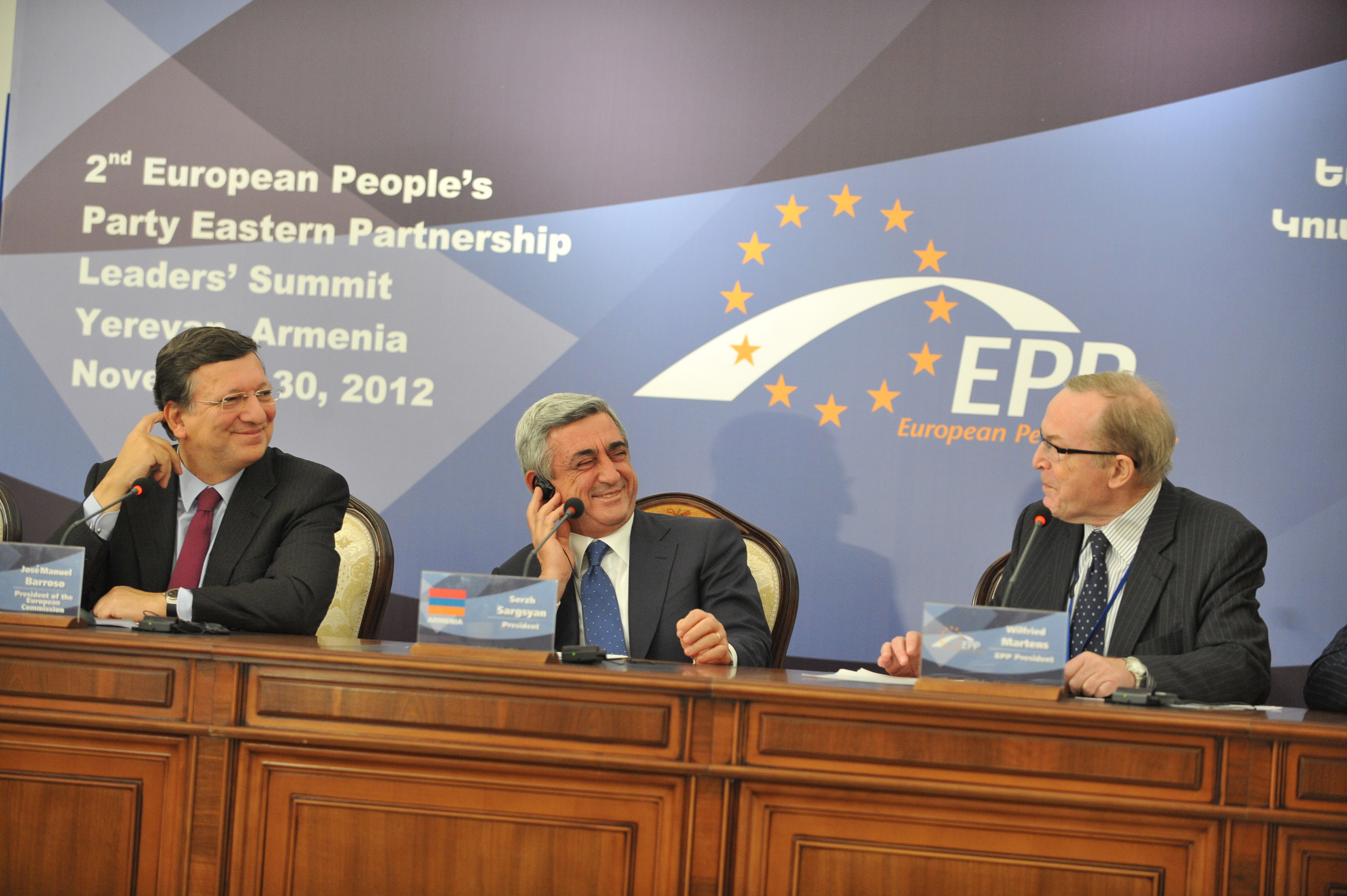 2nd EPP EaP Summit